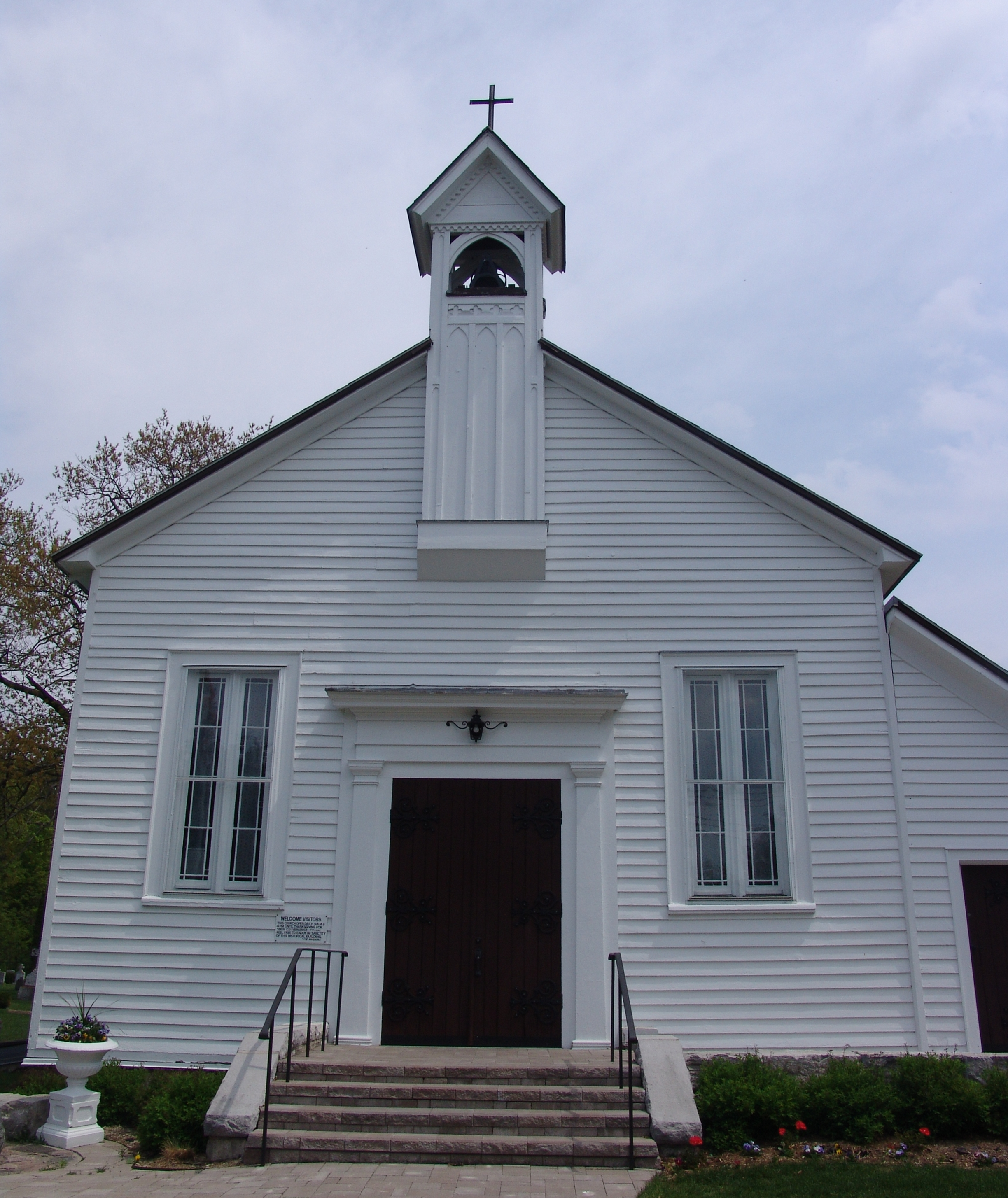 West end of St James-On-the-Lines church in Penetanguishene, Ontario